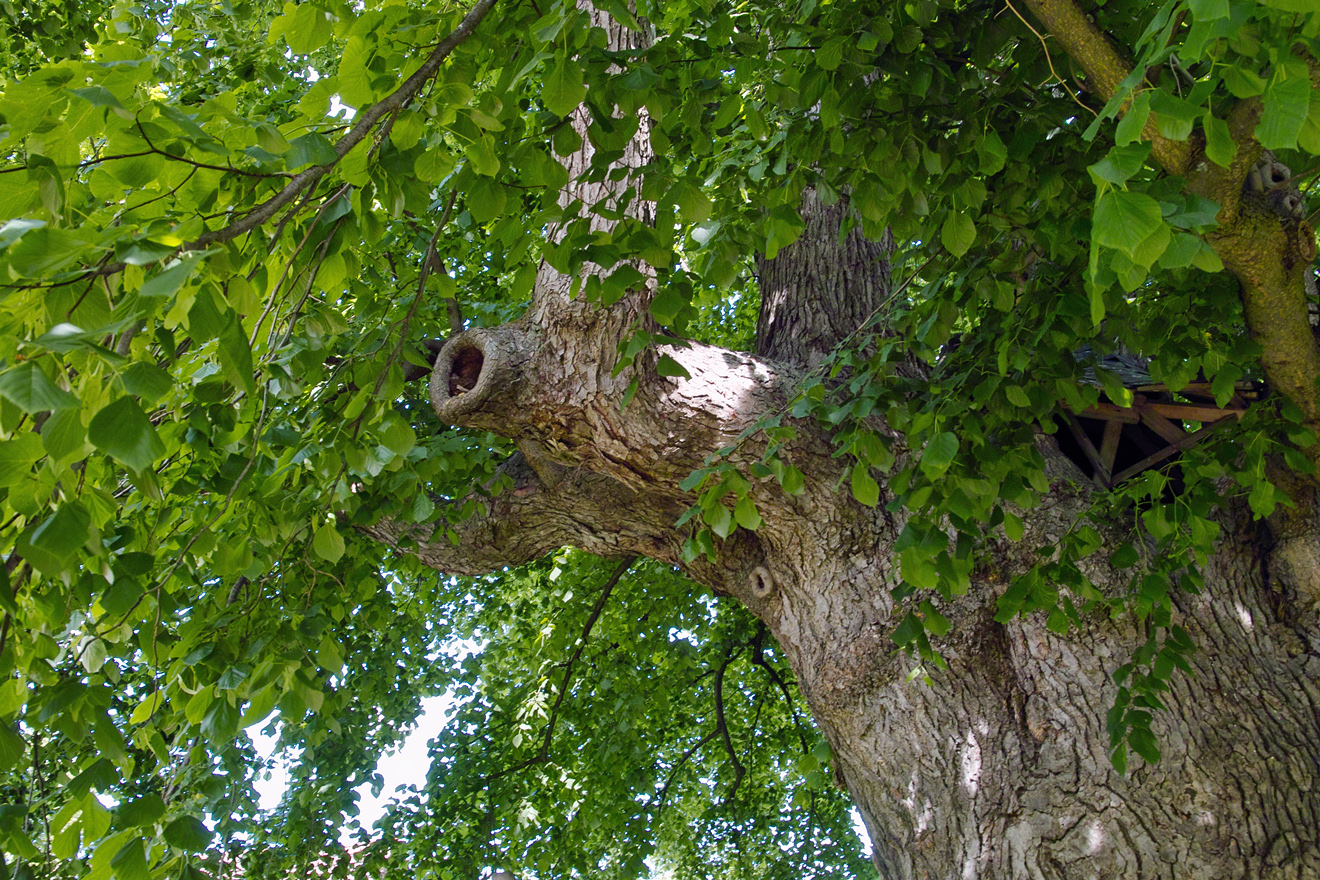 Holub's lime tree, famous tree in Vlasenice near Tabor, Czech Republic